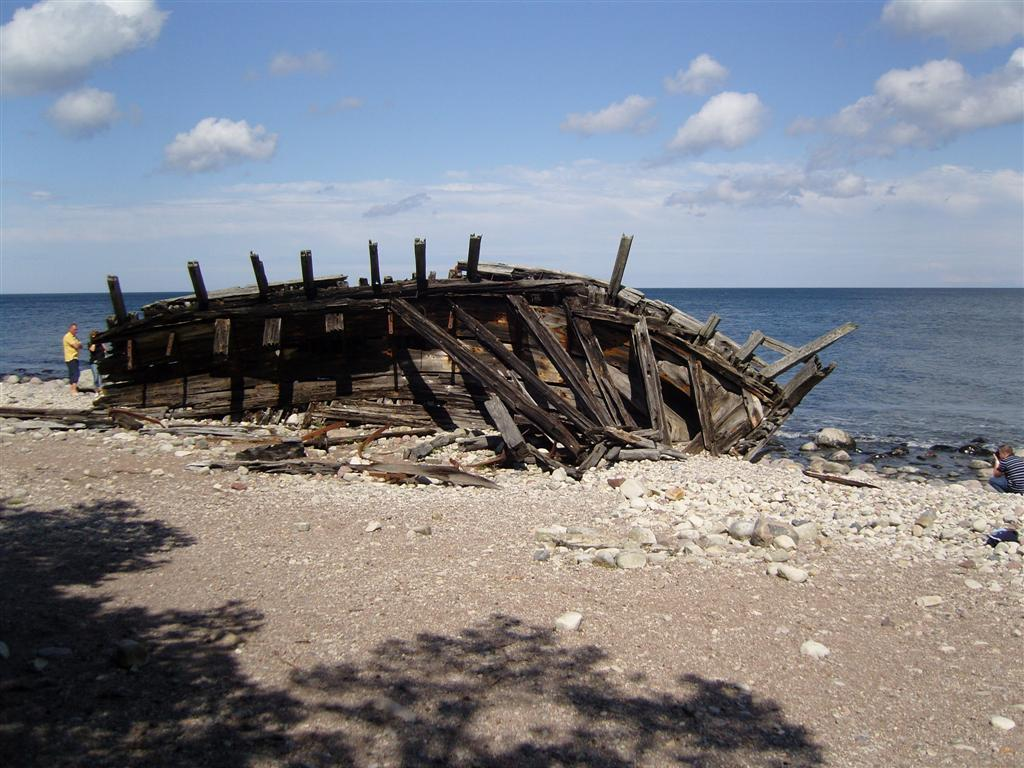 Wreckage of "Swiks" (foundered in 1926 during a hurricane) at Trollskogen, Öland, Sweden.